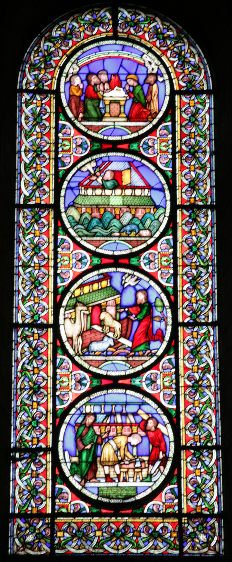 Stained glass windows at Ely Cathedral